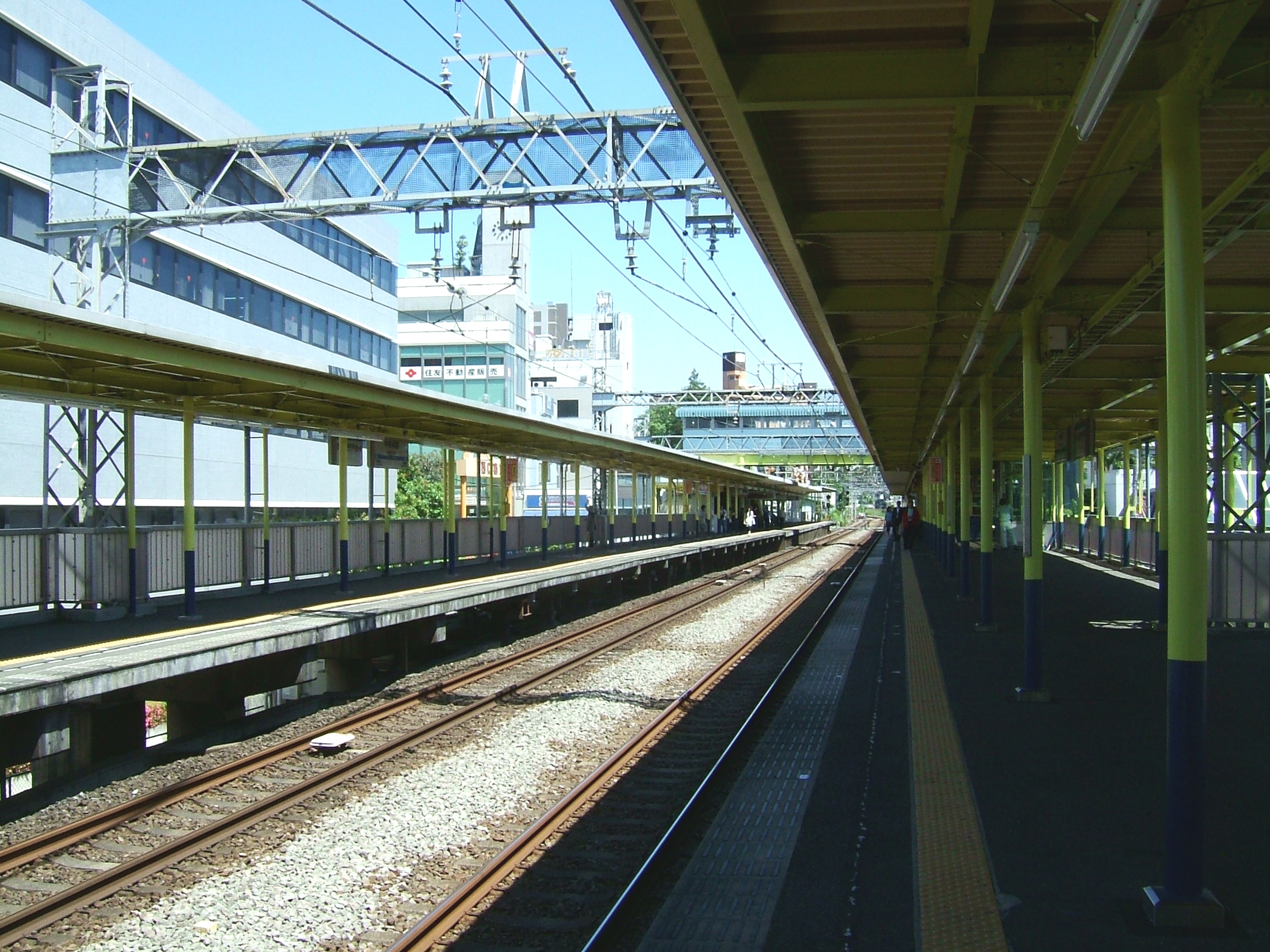 The platforms at Chūō-Rinkan Station on the Odakyu Enoshima Line